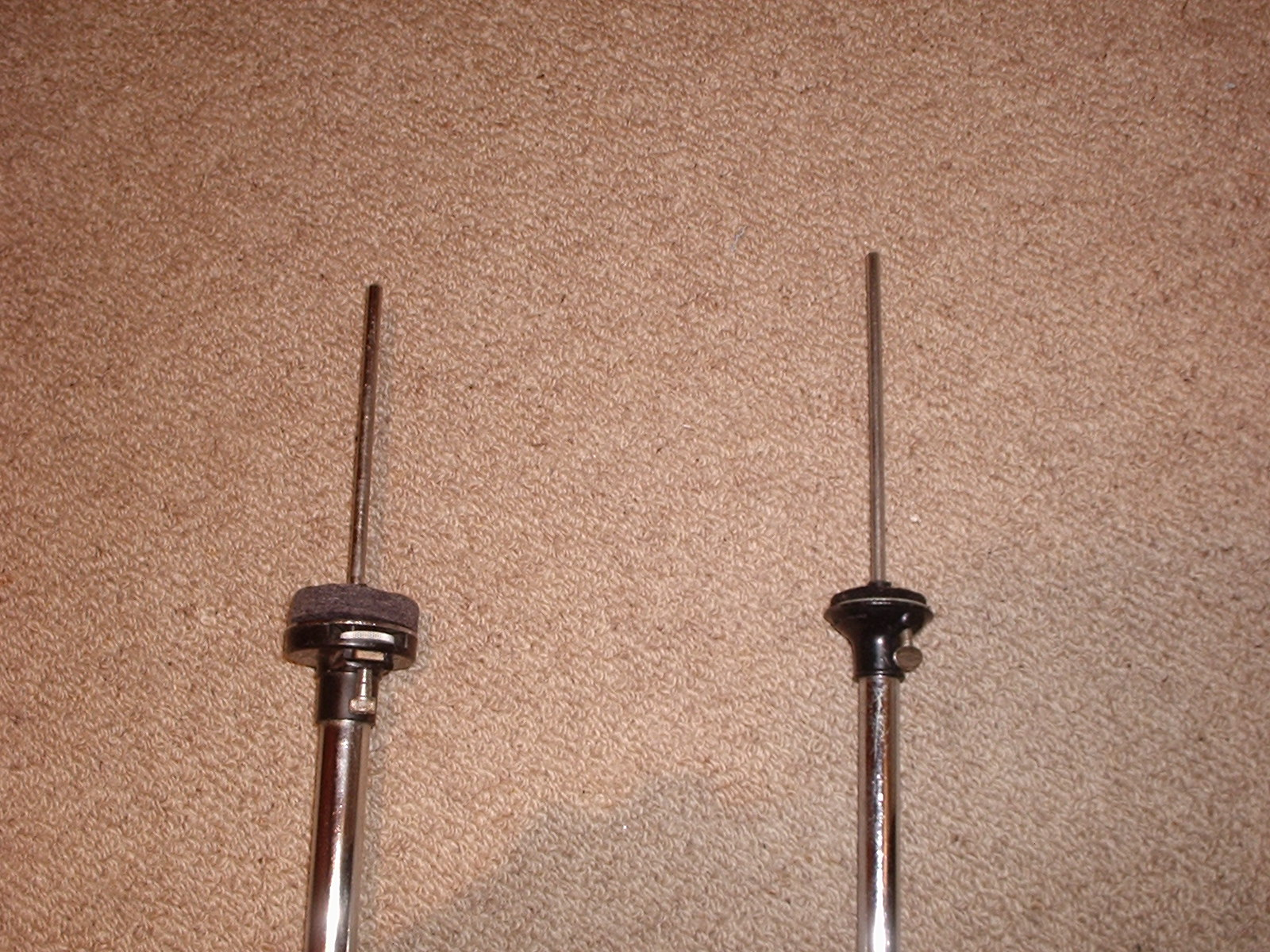 Tiltable lower cymbal platforms of two hi-hat stands